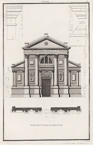 Church of San Francesco della Vigna in Venice, facade designed by Andrea Palladio, 1564. Drawing by Ottavio Bertotti Scamozzi, 1783.